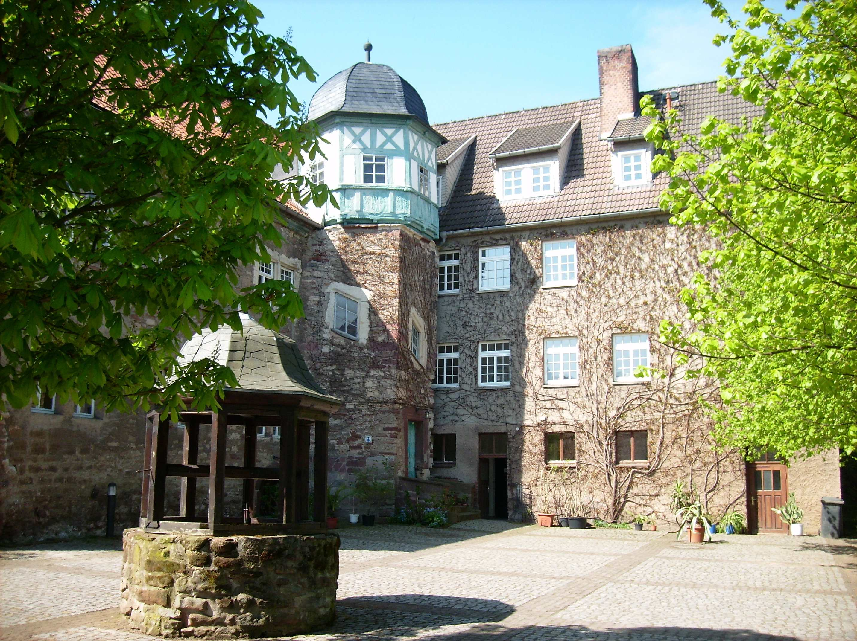 Humboldt's Castle, Auleben (Heringen/Helme, Nordhausen district, Thuringia)